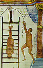 Handdrawin picture